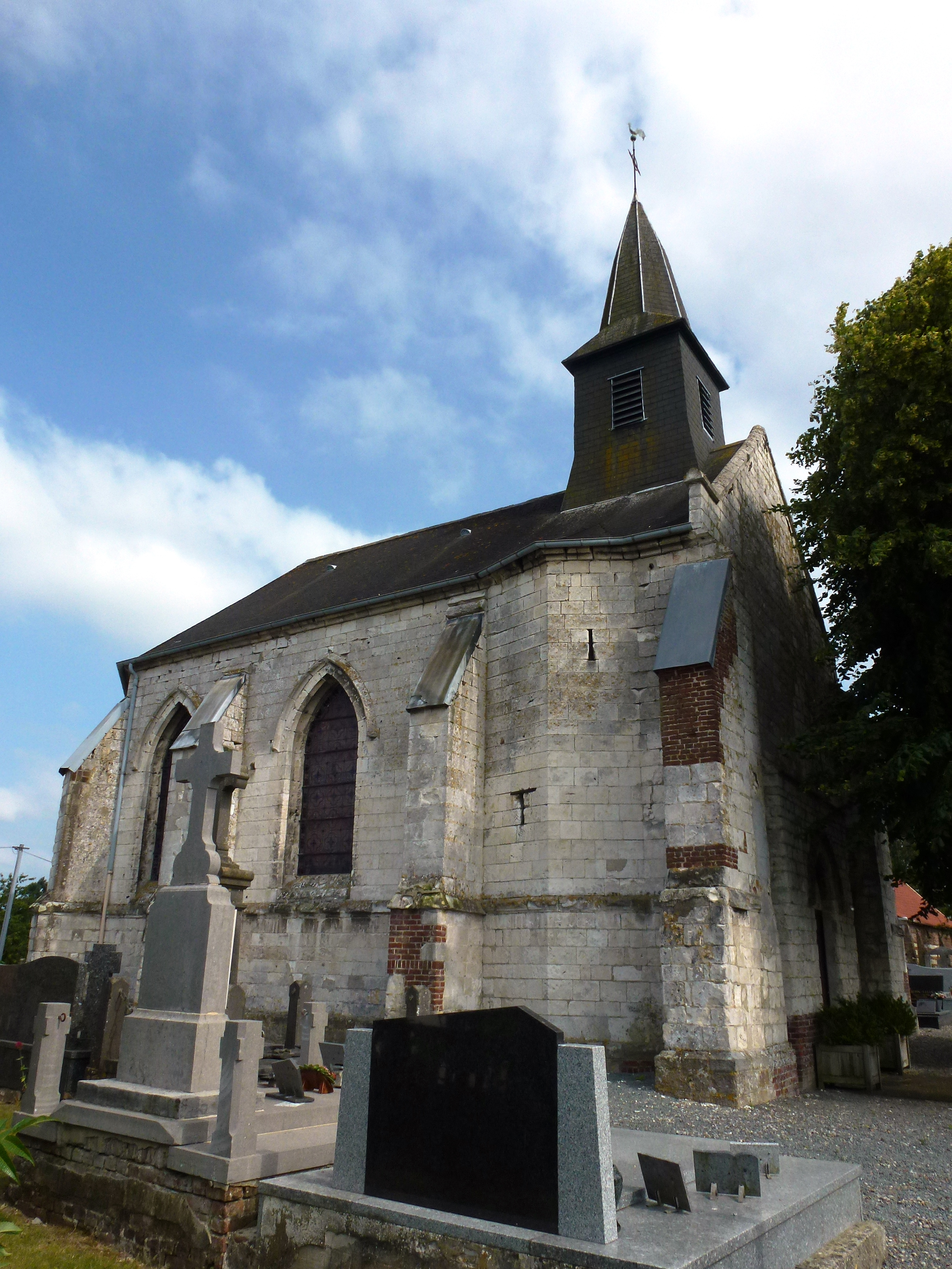 Lespesses (Pas-de-Calais, Fr) église Saint-Martin